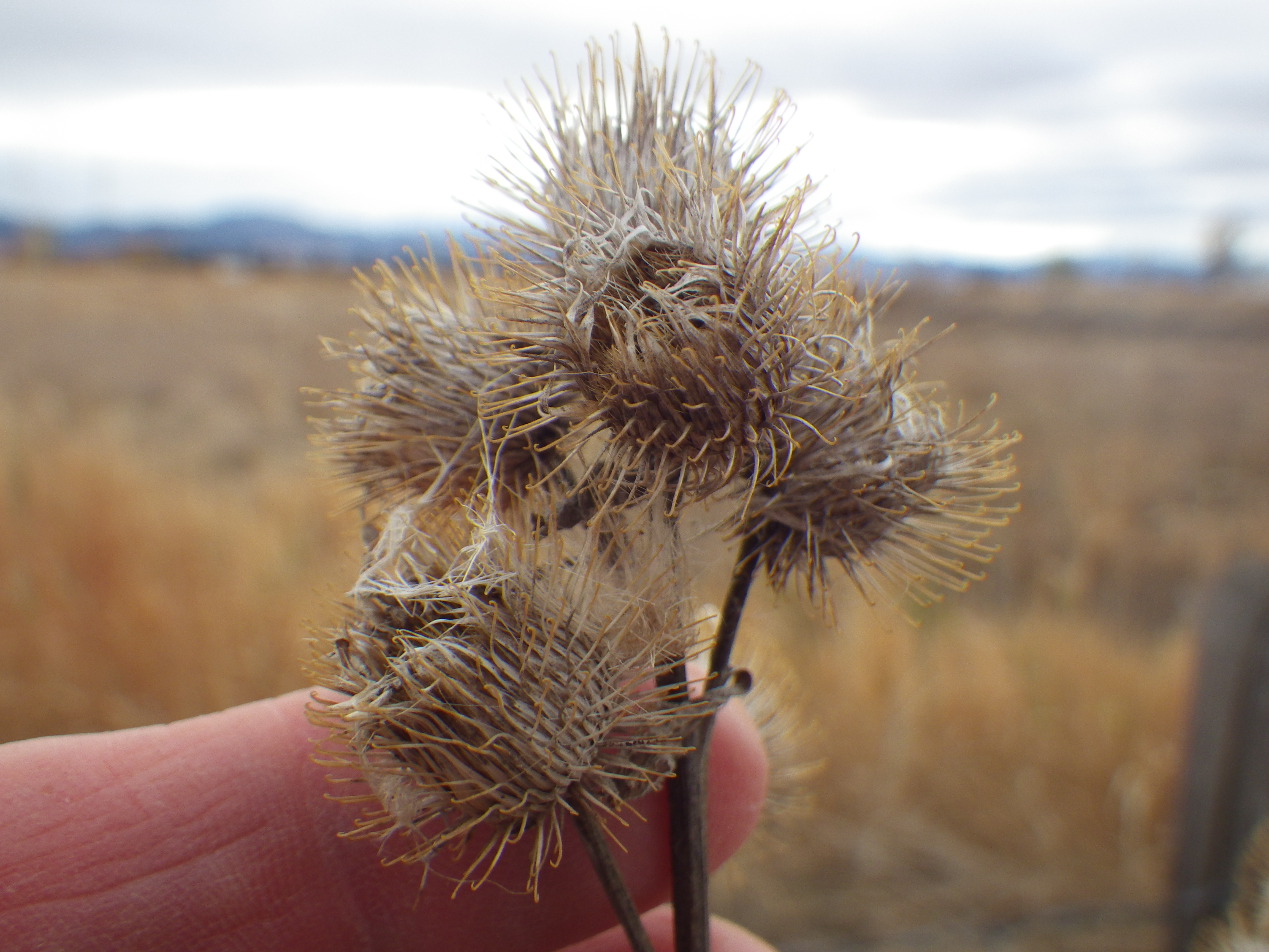 Arctium minus differs from Arctium lappa only by its smaller flowering heads that are arranged in racemes.